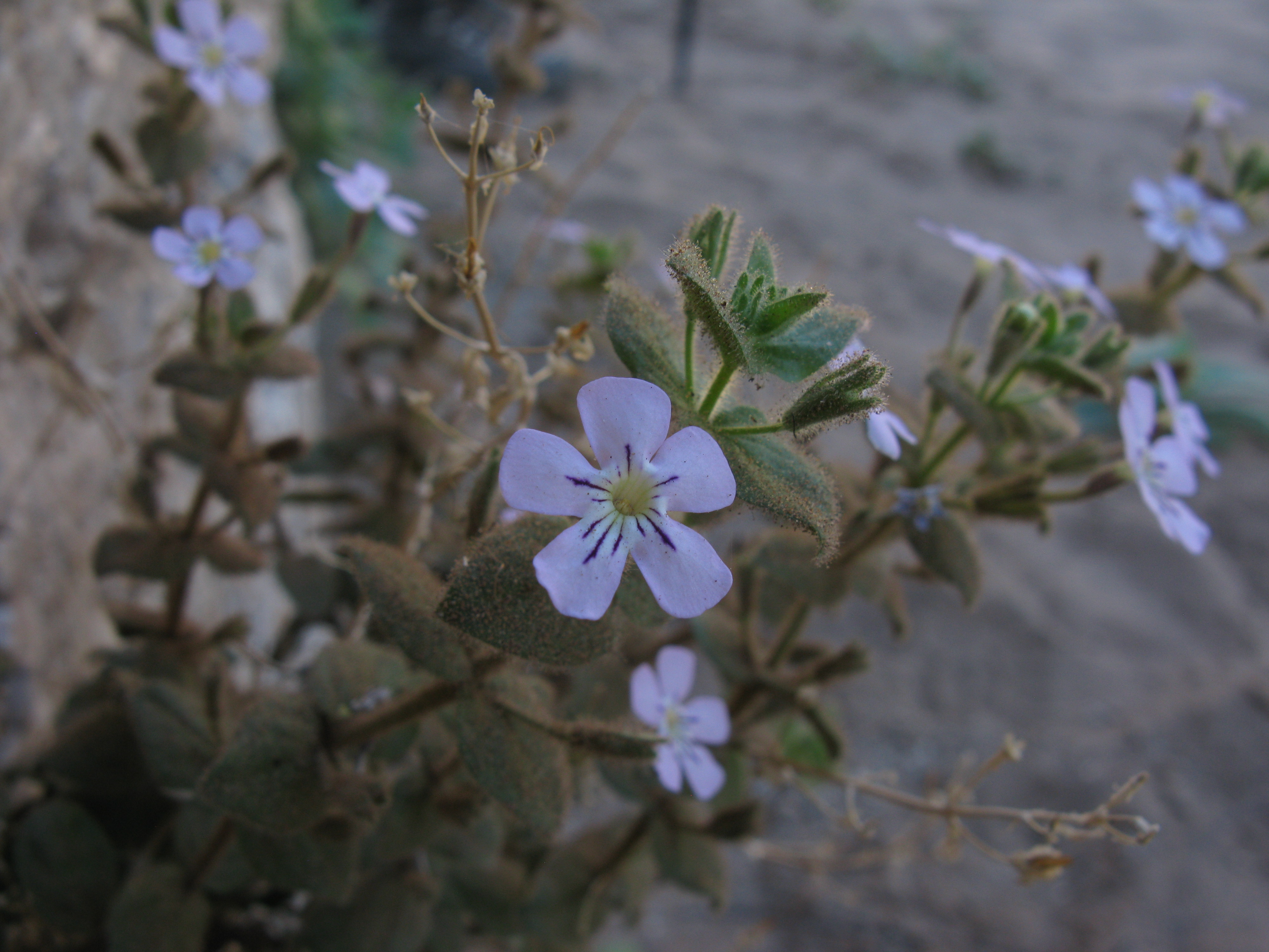 This specimen of Jamesbrittenia maxii (Hiern) Hilliard was growing out of the face of a scree rock in the Fish River Canyon, Namibia. It clearly had been there for some years.